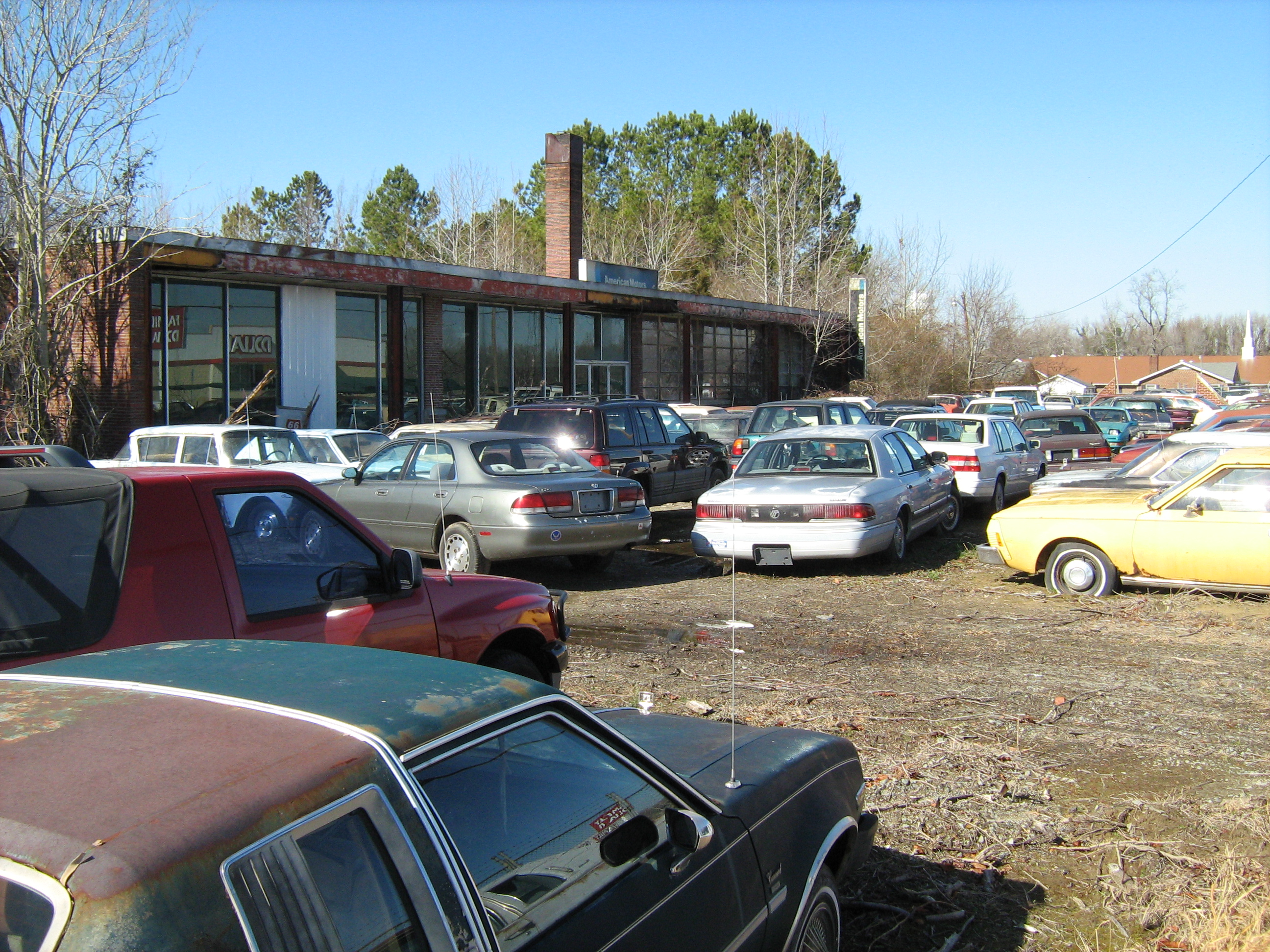 Collier Motors, an original automobile dealership that sold and serviced American Motors Corporation (AMC) vehicles. Located at 4713 US-117 Hwy, Pikeville, NC 27863